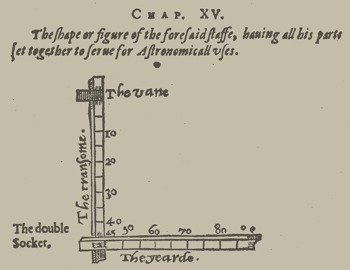 Drawing of a Hood cross-staff